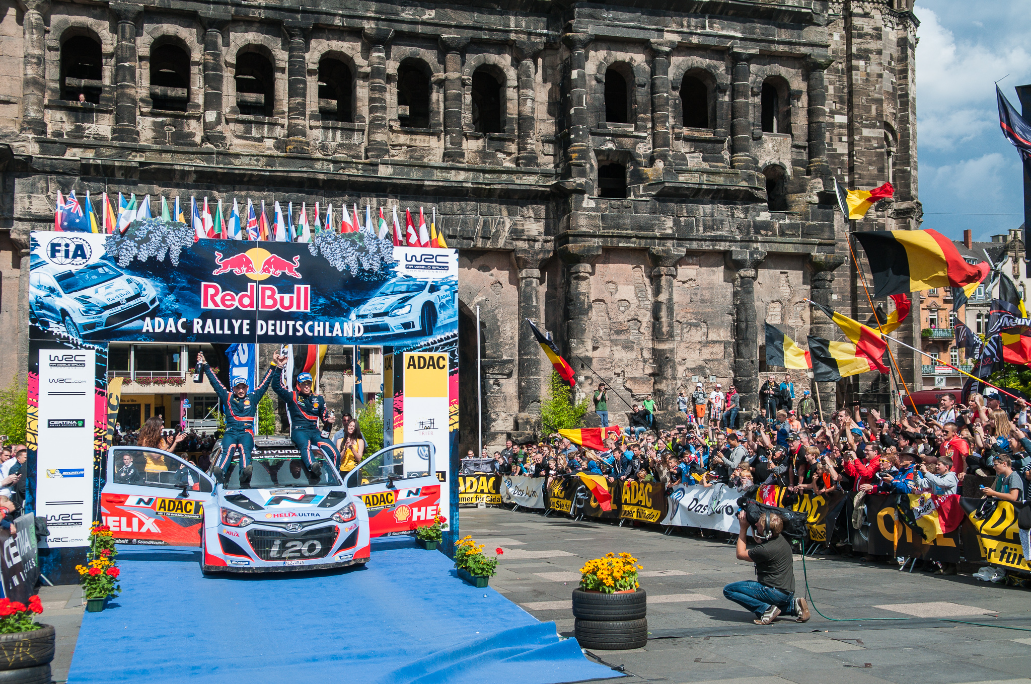 ADAC Rallye Deutschland 2014,FIA,FIA World Rally Championship,Hyundai Motorsport,Hyundai i20 WRC,Motorsport,Nicolas Gilsoul,Rally,Rallye,Siegerehrung,Thierry Neuville,WRC